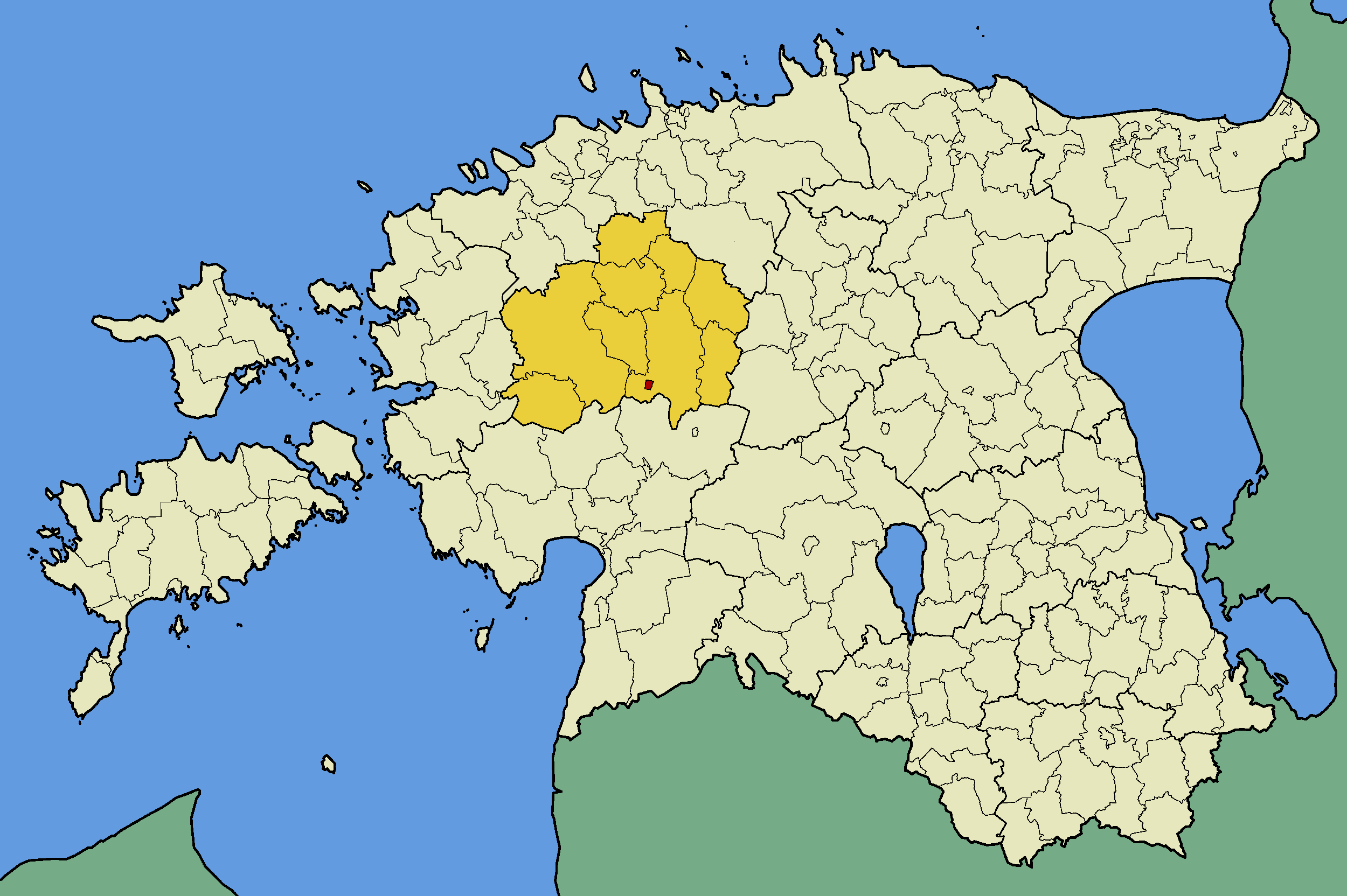 Map of Estonia with borders of municipalities (parishes). Rapla county and Järvakandi municipality emphasized.